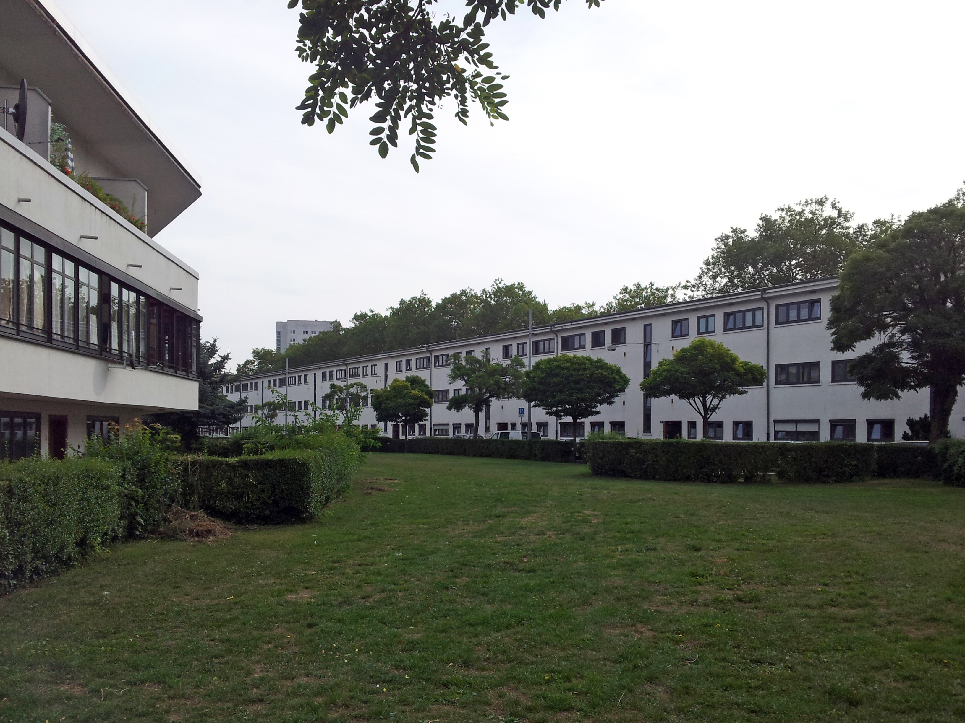 Heimatsiedlung, a housing estate of the "New Frankfurt"-project. Architect: Franz Roeckle, 1927